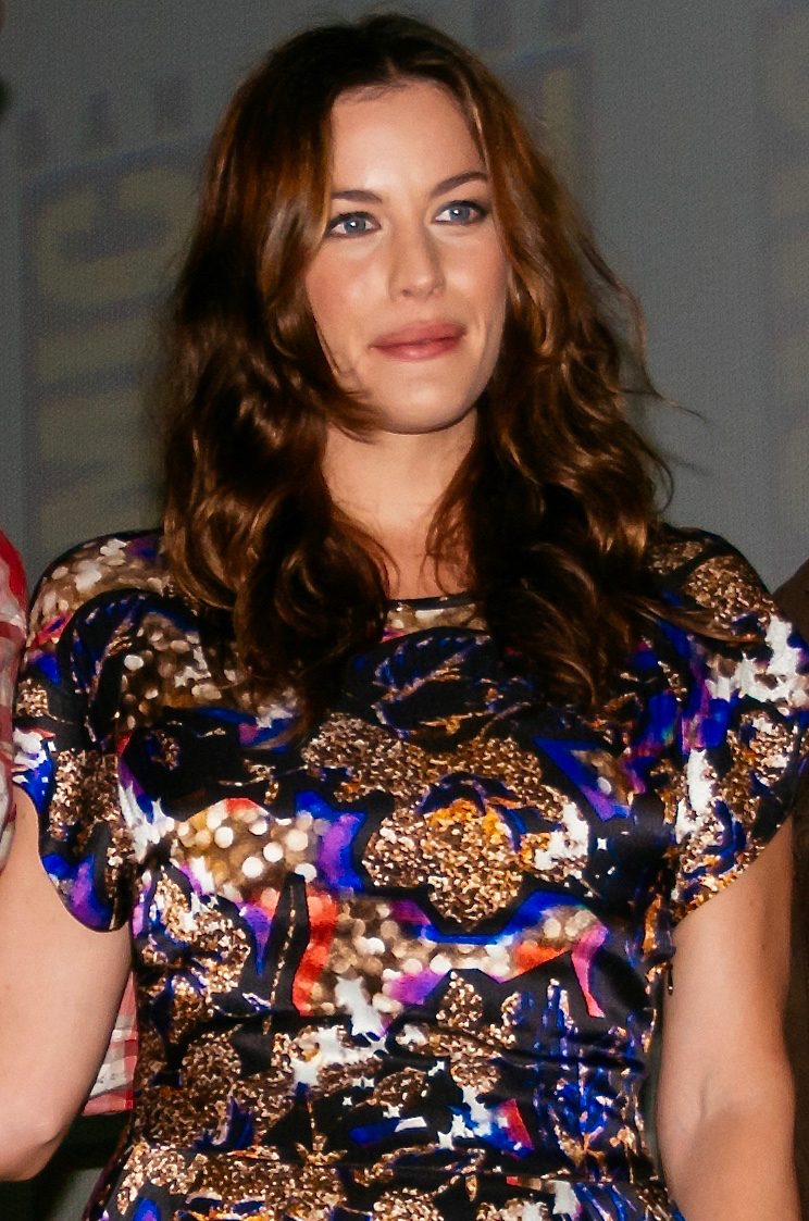 Liv Tyler at 2010 San Diego Comic Con